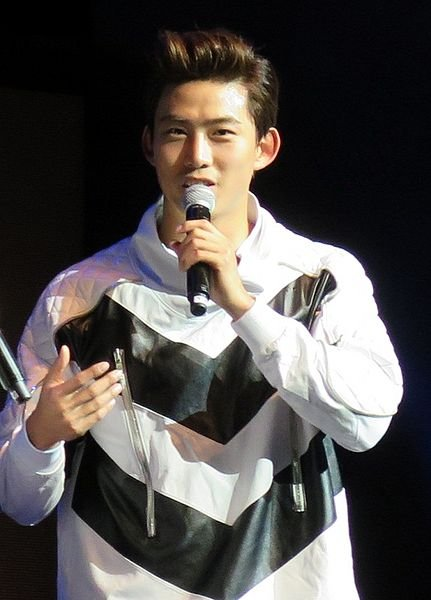 2PM Go Crazy World Tour, Rosemont Theatre, Chicago (Rosemont), Illinois, U.S.A.